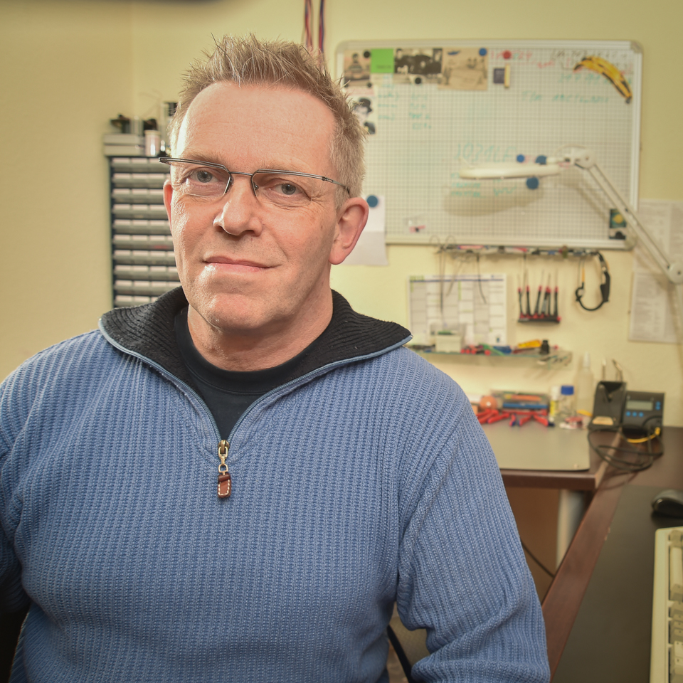 Portrait of Werner Koch in January 2015